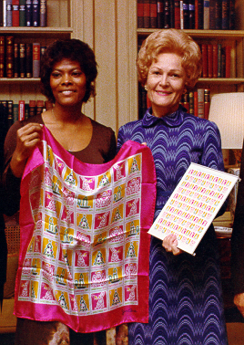 First Lady Pat Nixon with singer Dionne Warwick